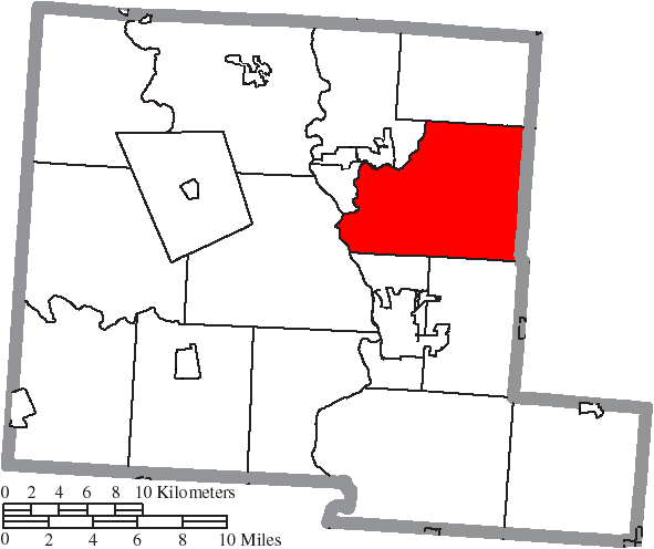 Map of the municipal and township boundaries of Pickaway County, Ohio, United States, as of the 2000 census, with the location of Walnut Township highlighted. Township borders are shown only in unincorporated areas in order to differentiate incorporated and unincorporated areas more clearly.